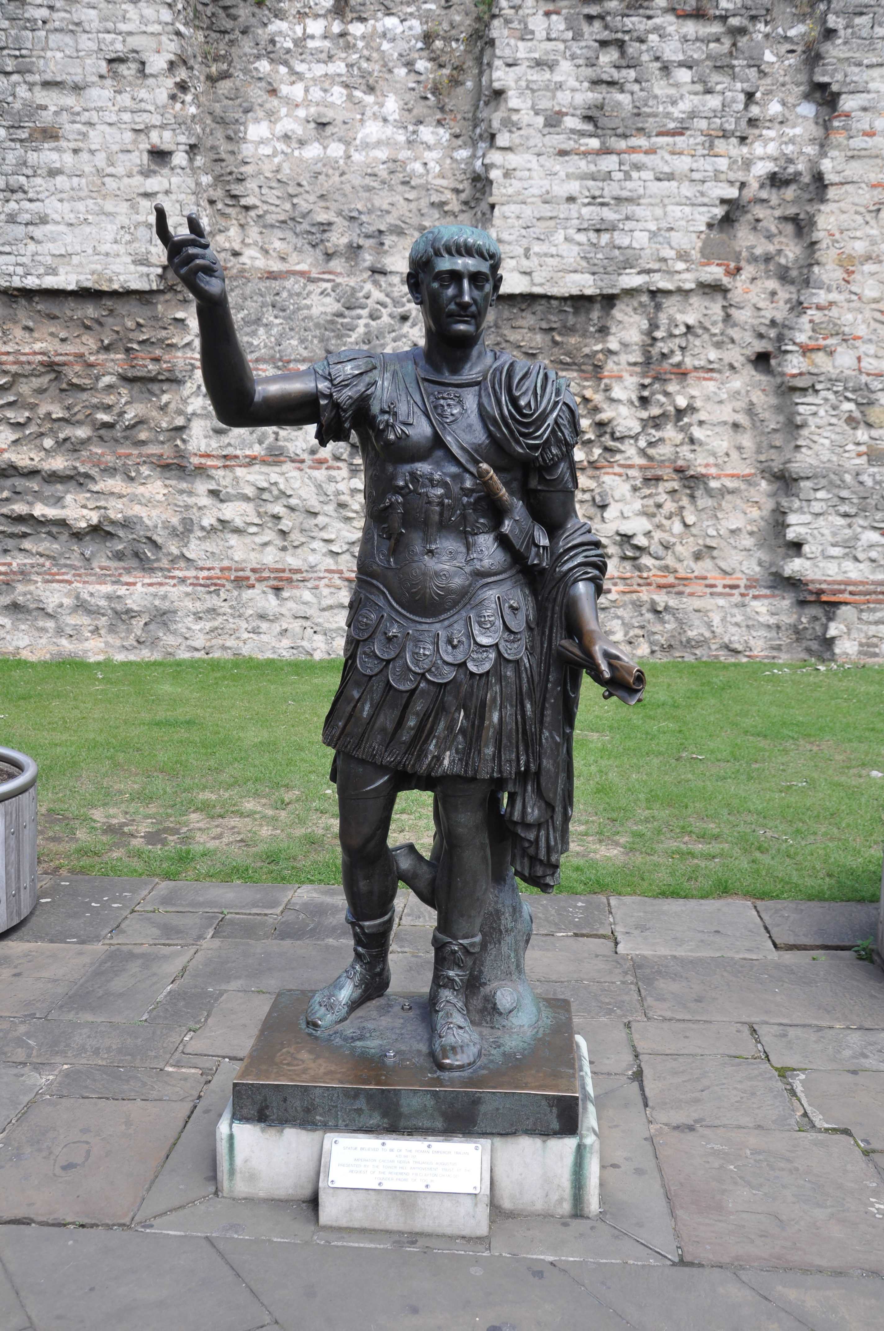 London, statue at Tower Hill (Statue believed to be of the Roman Emperor Trajan, presented by the Tower Hill Improvement Trust at the request of the Rev. P. B. Clayton, CH, MC, DD, Founder Padre of TOC H.)